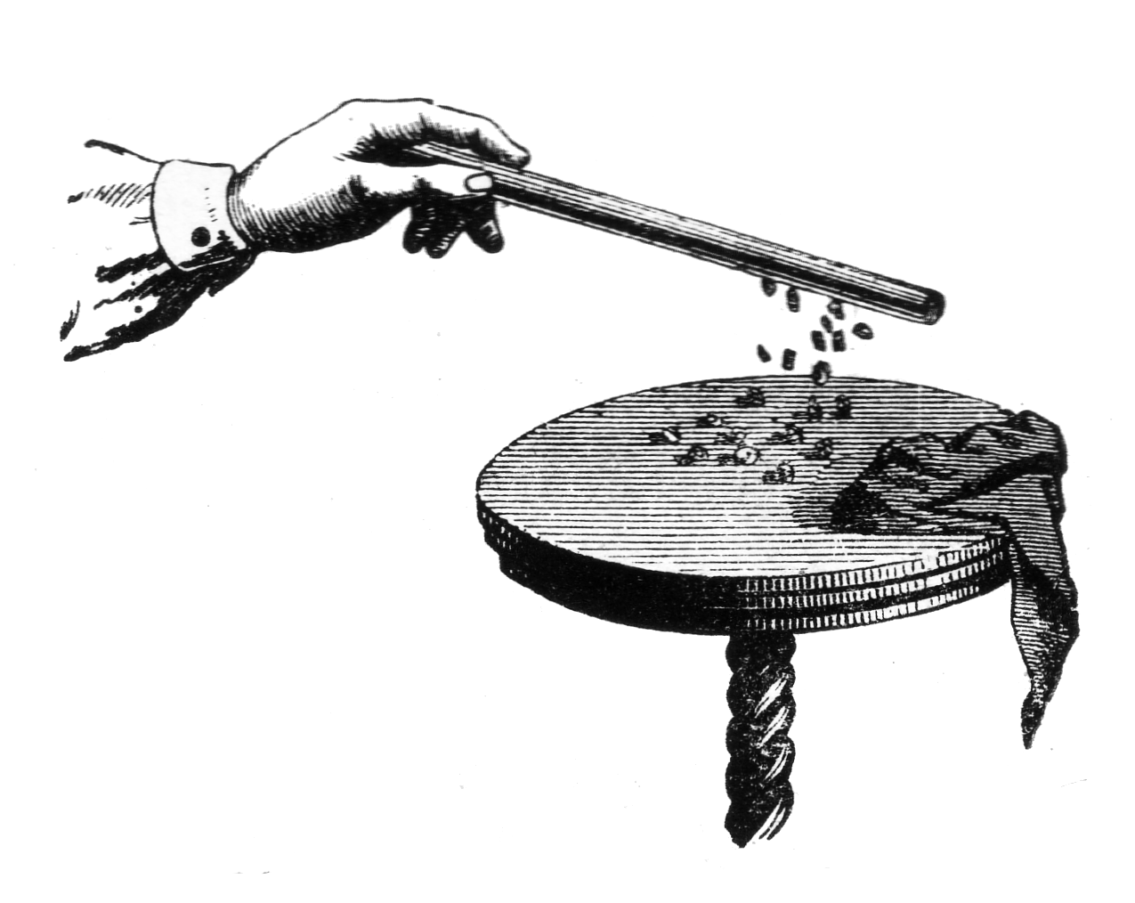 "Opfindelsernes Bog" (Book of inventions) 1878 by André Lütken, Ill. 281.